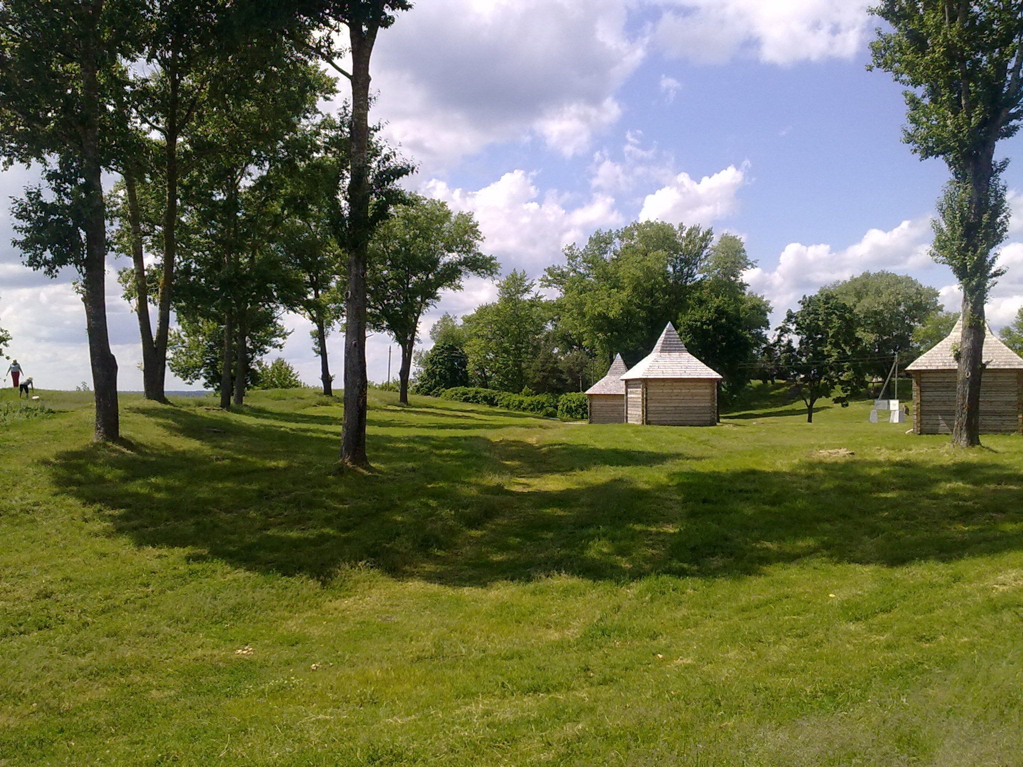 Беларуская (тарашкевіца): Гарадзішча. г. Браслаў This is a photo of Belarusian heritage monument. Reference number: 213В000174 ( WLM)